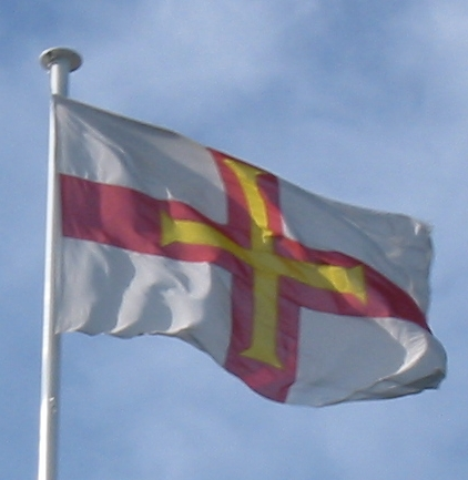 Flag of Guernsey flying in St. Peter Port